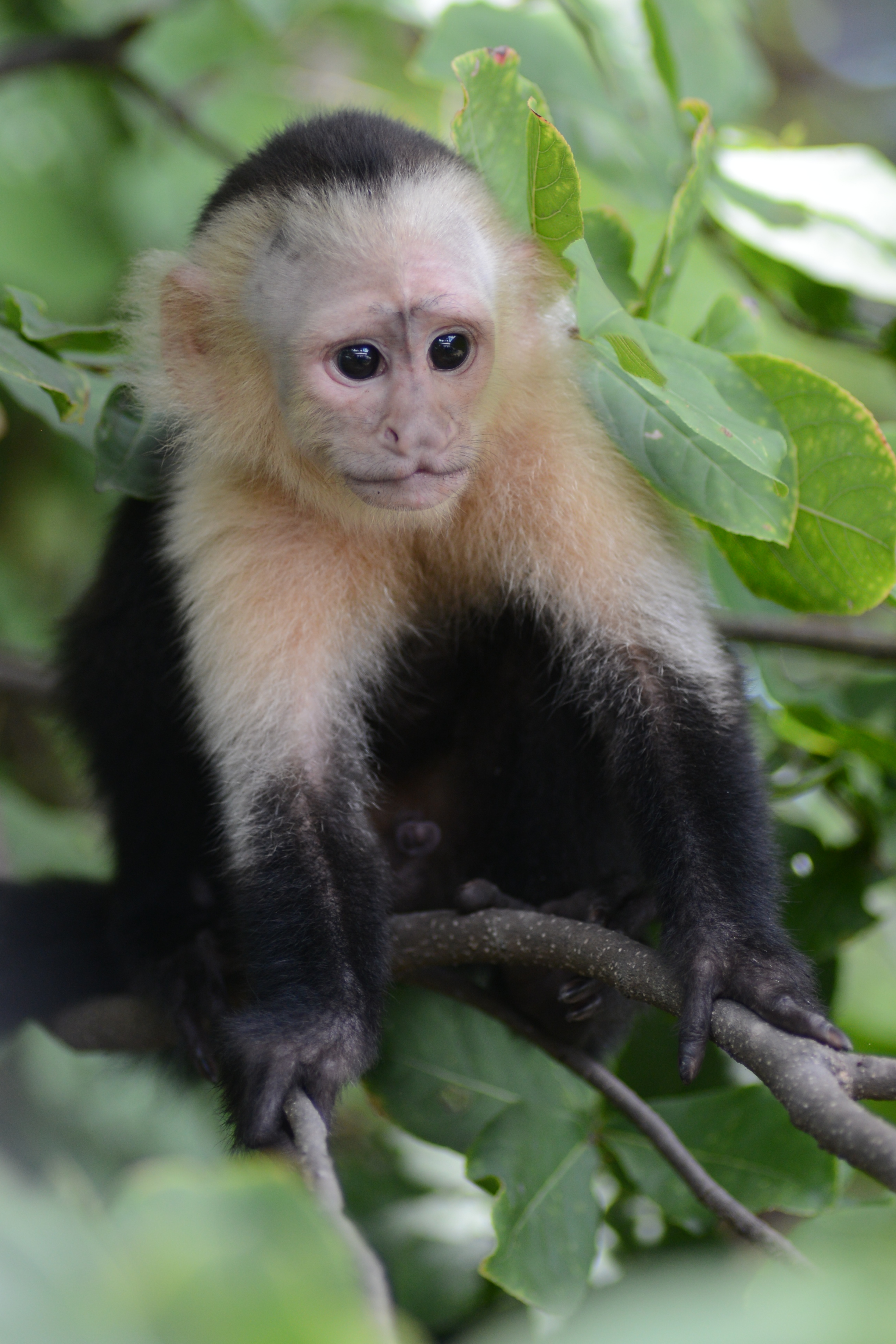 Young White-headed_capuchin Palo Verde, Costa Rica